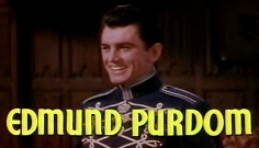 Cropped screenshot of Edmund Purdom from the trailer for the film The Student Prince